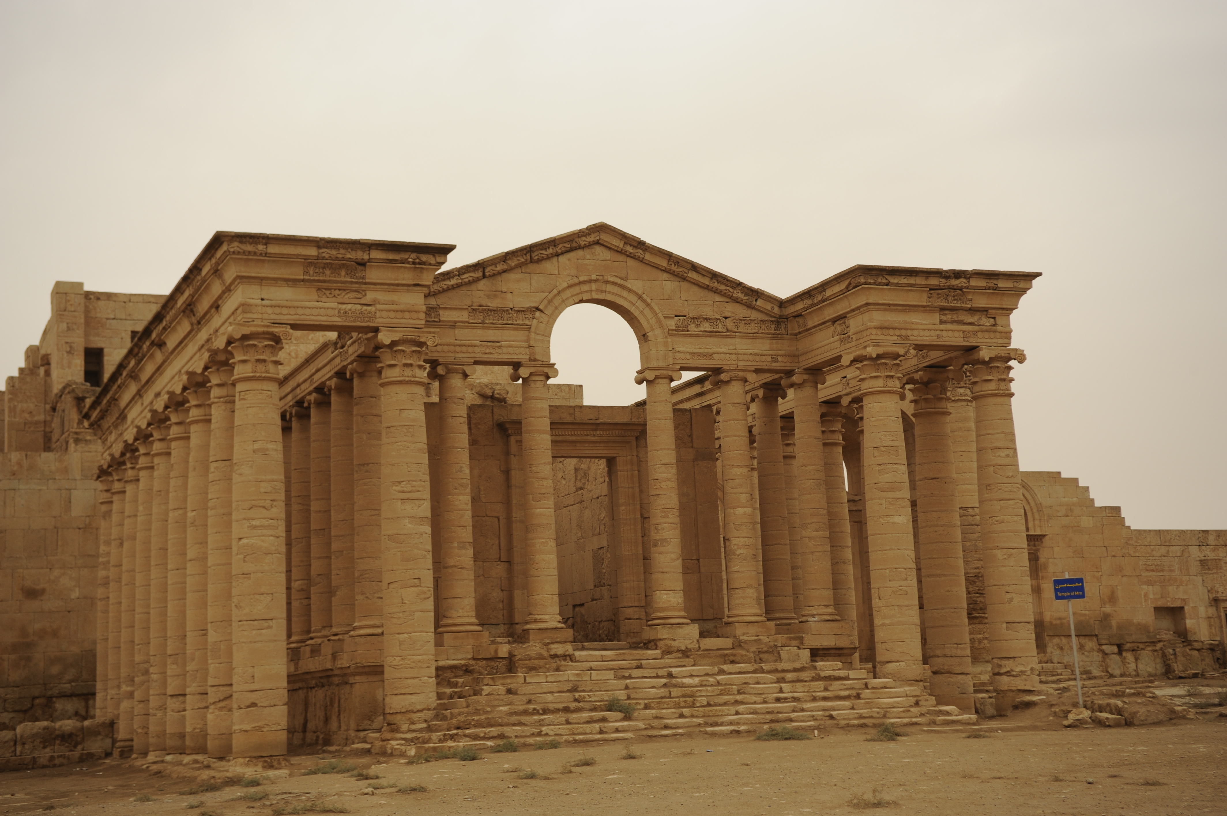 Members of the Provincial Reconstruction Team and representatives of United Nations Educational, Scientific, and Cultural Organization visit what once was a maeeting hall in the Shrine of Hatra, in Hatra, Iraq, Nov. 20. Hatra is one of three areas in Iraq that is a World Heritage site. UNESCO works to create the conditions for genuine dialogue based upon respect for shared values and the dignity of each civilization and culture. (11.20.2008)